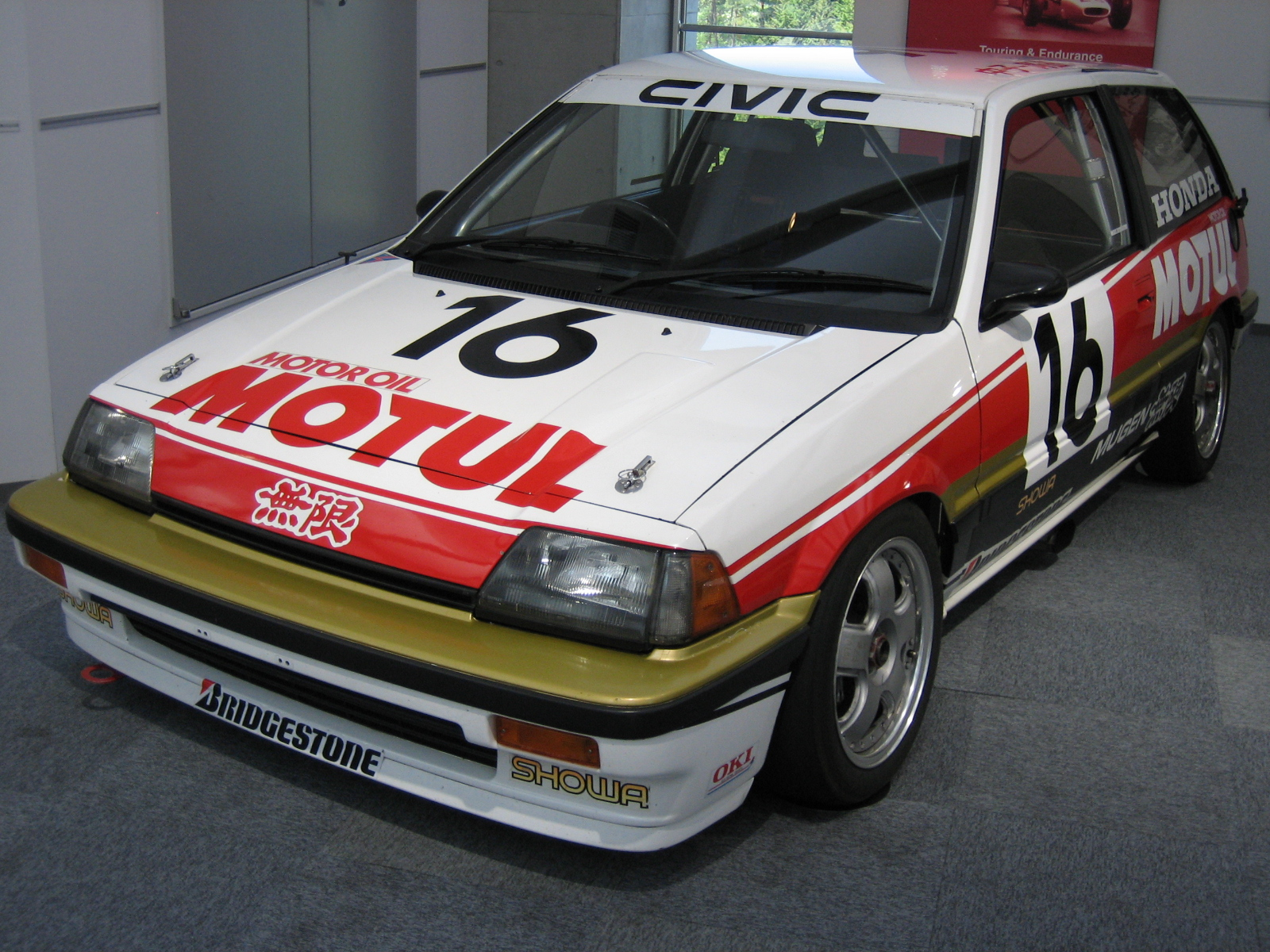 I photoed Mugen-MOTUL-CIVIC-Si-racecar in the Honda collection hole.